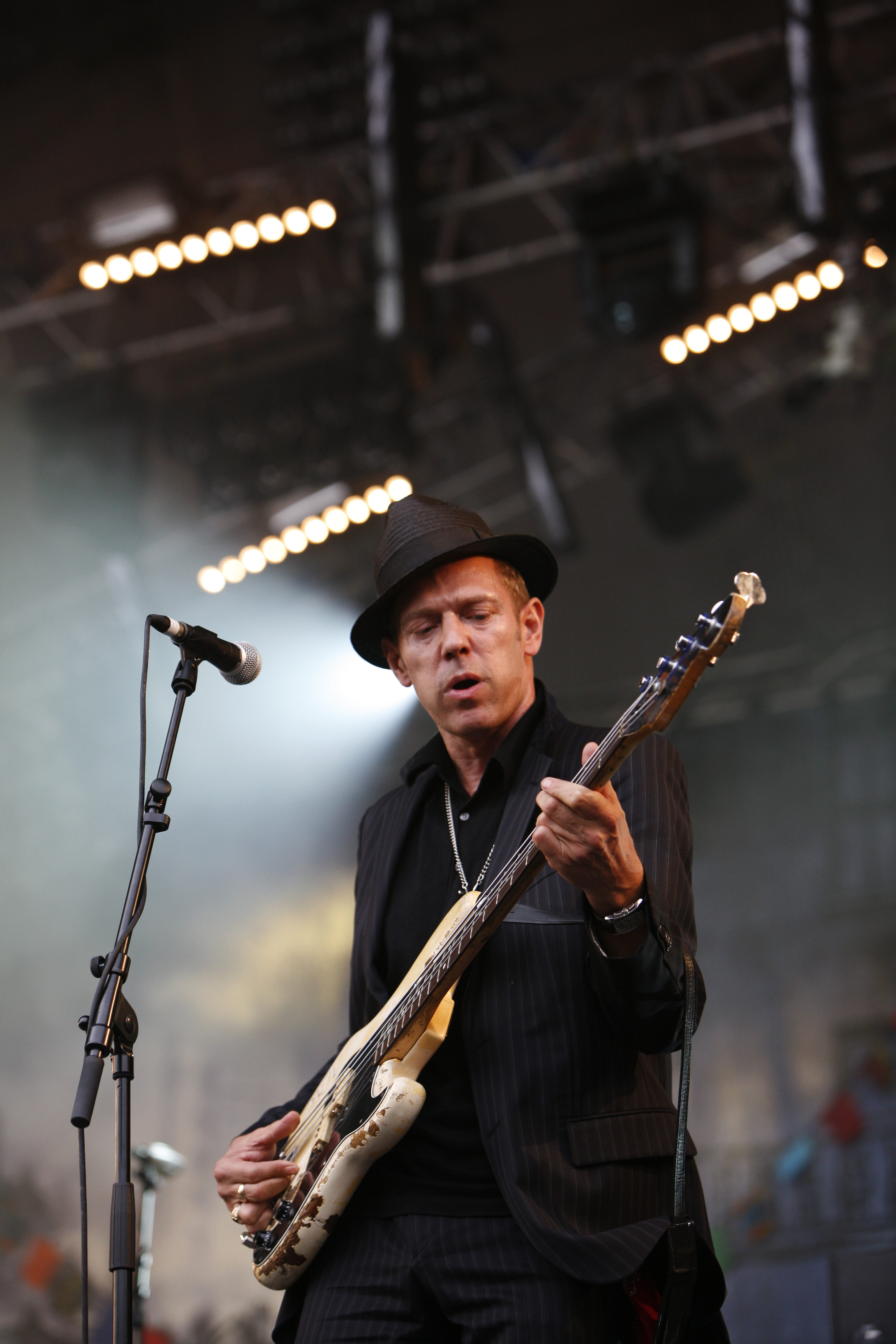 Paul Simonon at the Eurockéennes of 2007